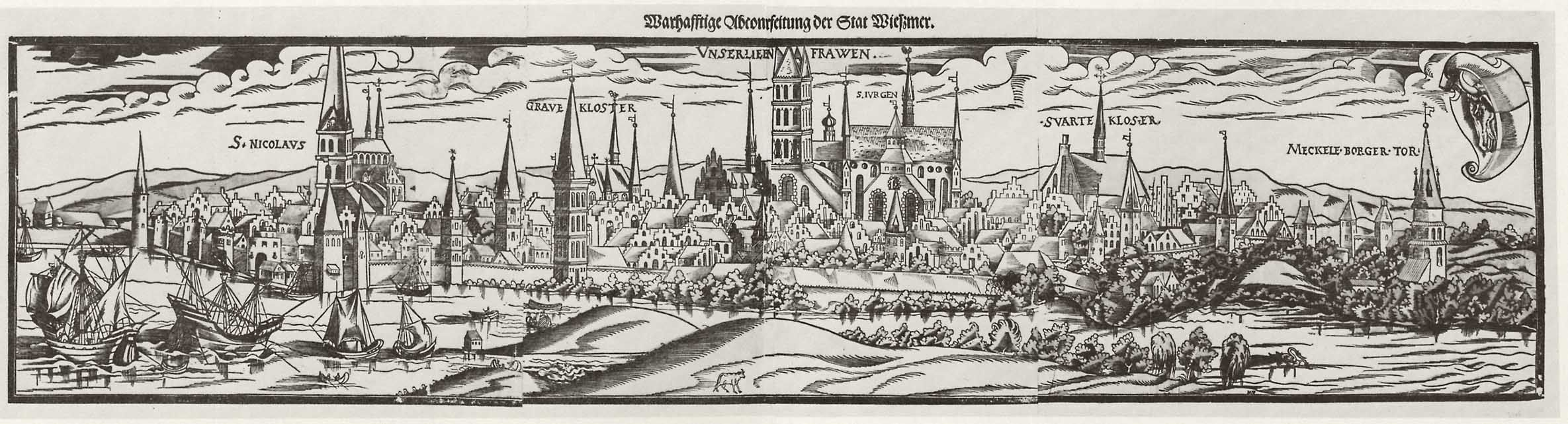 Wismar, 16th century, National Museum Nürnberg